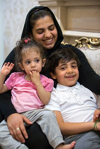 Fars interview with family of Hadi Norouzi, his spouse Masoumeh Ebrahimpour with their two child, Hanna and Hani. see full gallery